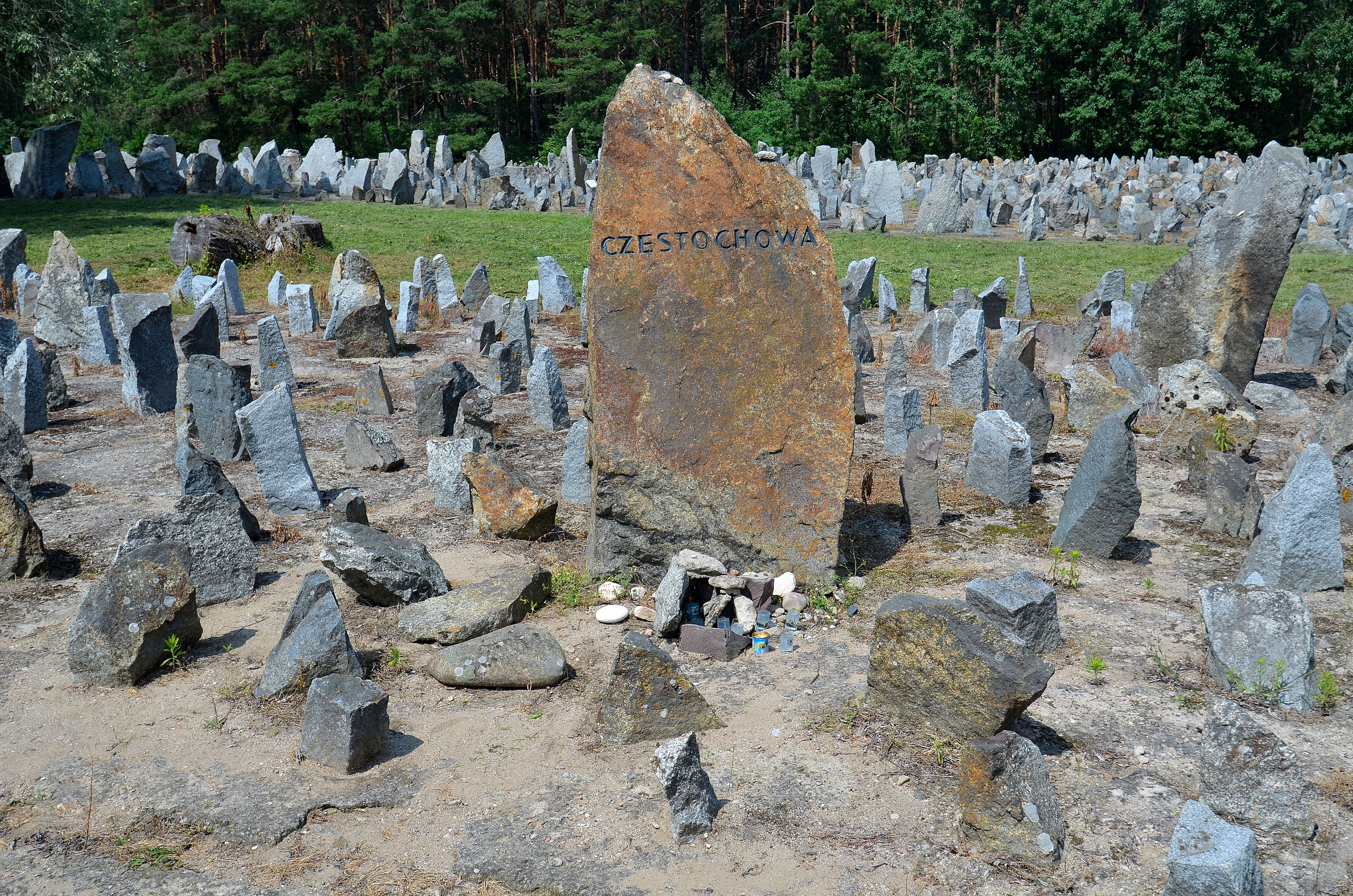 Part of Treblinka II memorial